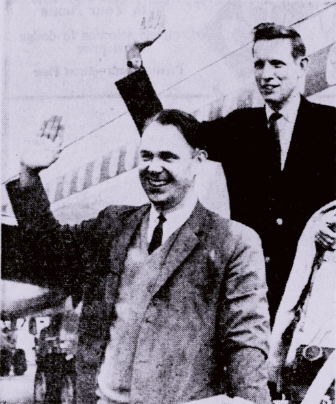 Mark I. Kaminsky (left) and Harvey C. Bennett arriving on Thursday, October 20, 1960, at the Idlewild Airport (New York City), a previous name of the John F. Kennedy International Airport. Both were arrested but then released by the Soviet Union in 1960.